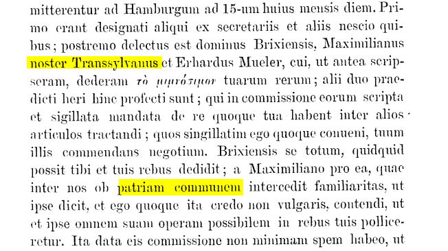 Letter from Nicolaus Olahus to the Archibishof on Lund, dated on Februar 8, 1534